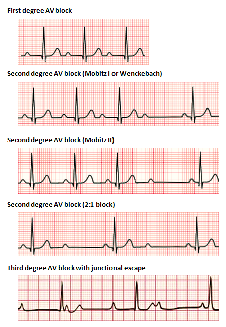 Made by the author using source images by Wikipedia users Googletrans and Jheuser